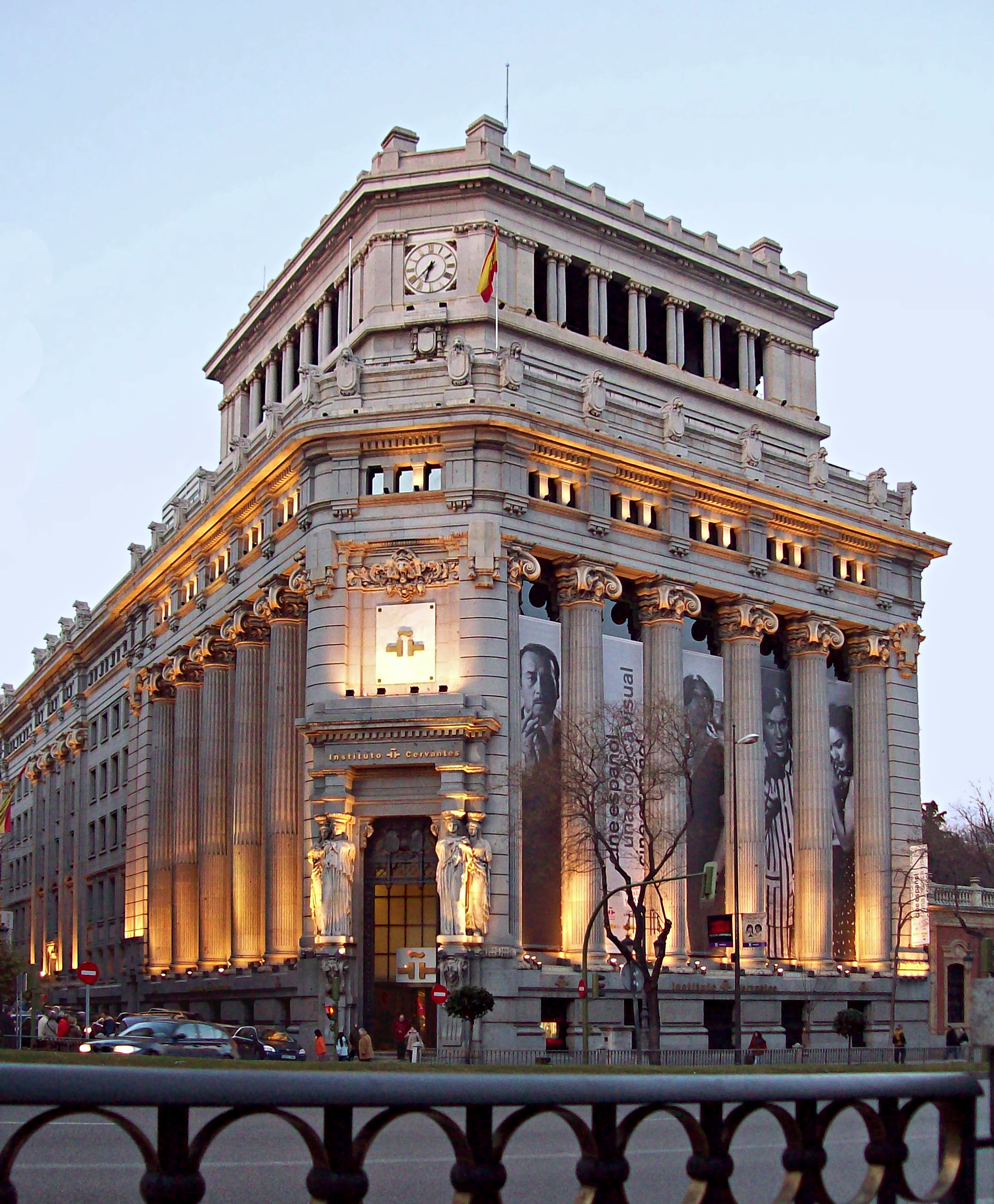 View of Cervantes Institute headquarters (former Río de la Plata Bank's building) from Calle de Alcalá (street) in Madrid (Spain).